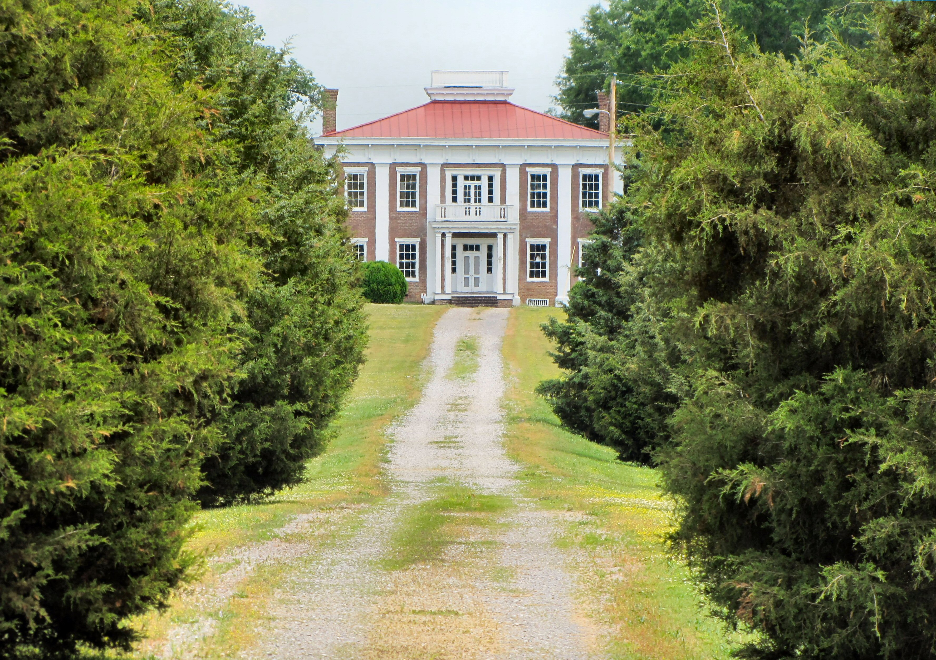 Fairfax, also known as Riverview, in White Pine, Tennessee, United States. Built in 1840 by Lawson Franklin for his son Isaac, this house is now listed on the National Register of Historic Places.